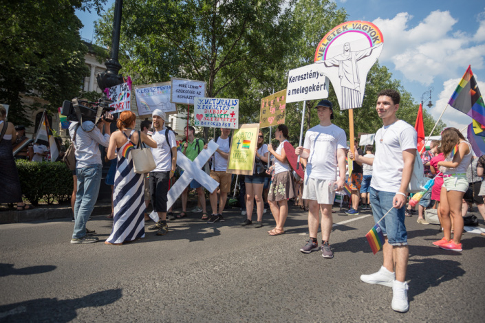 Members of "Keresztények a melegekért" (Christians for Gays) at Budapest Pride 2016